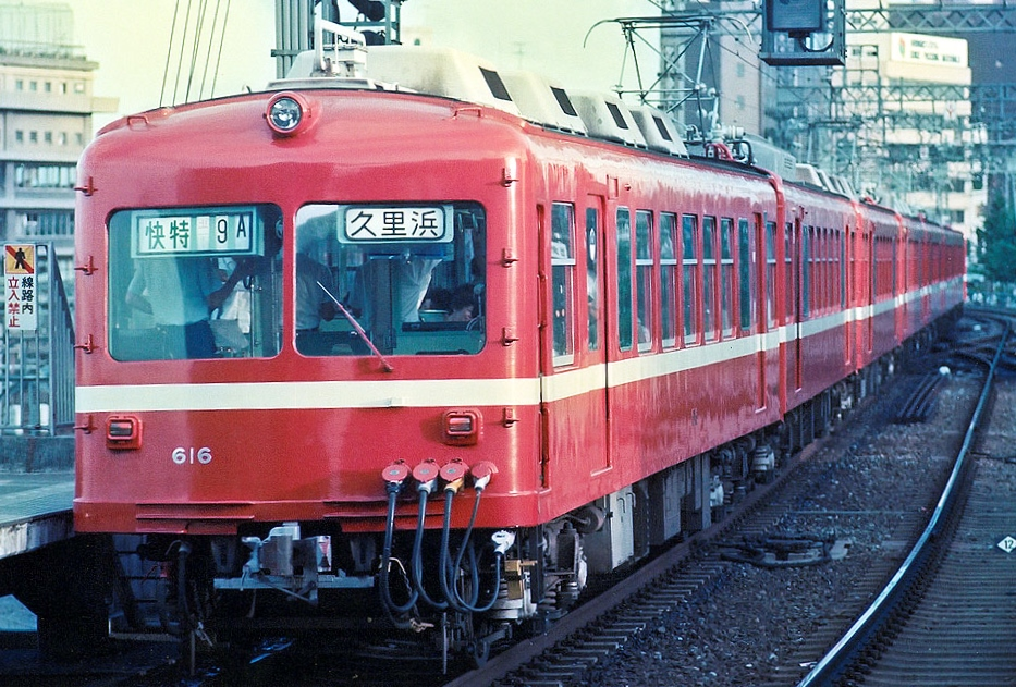 A Keikyu 600 series EMU on a Rapid Limited Express service